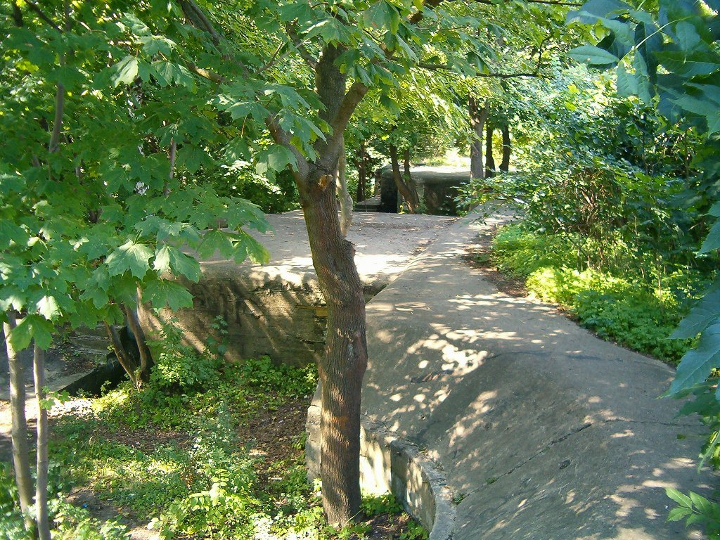 Park area in Brzeźno, Gdansk, Poland.